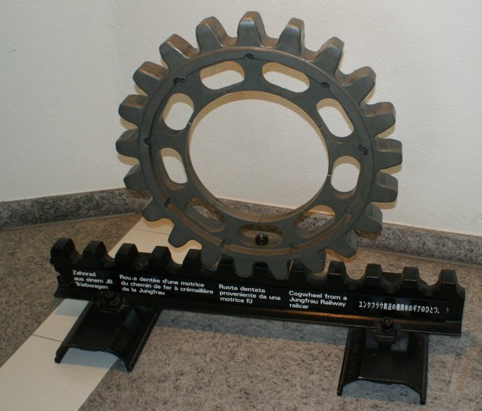 Cogwheel and rack of the Strub system on display at the terminus of the Jungfraubahn on the Jungfraujoch